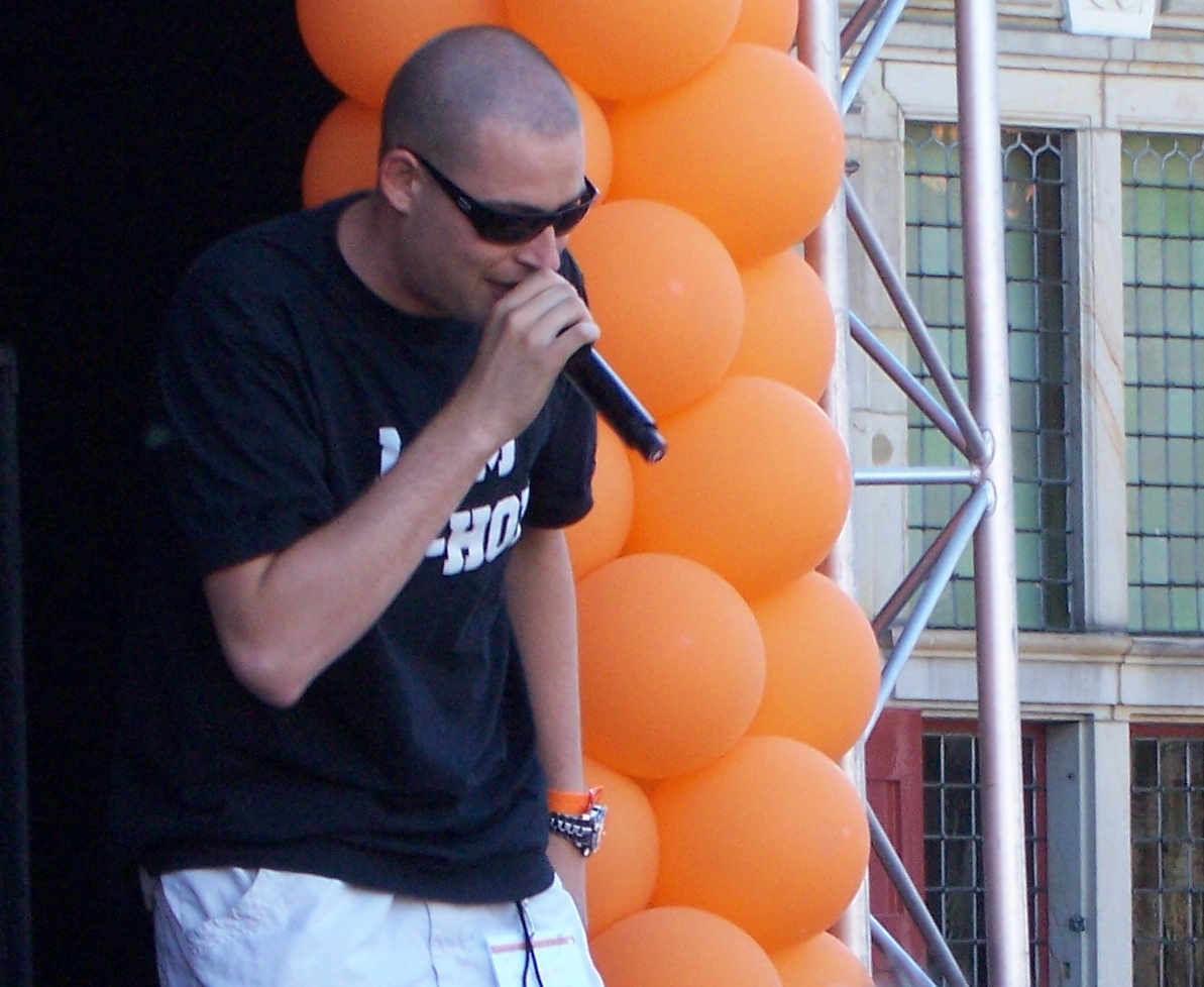 lange Frans, dutch hip hop artist